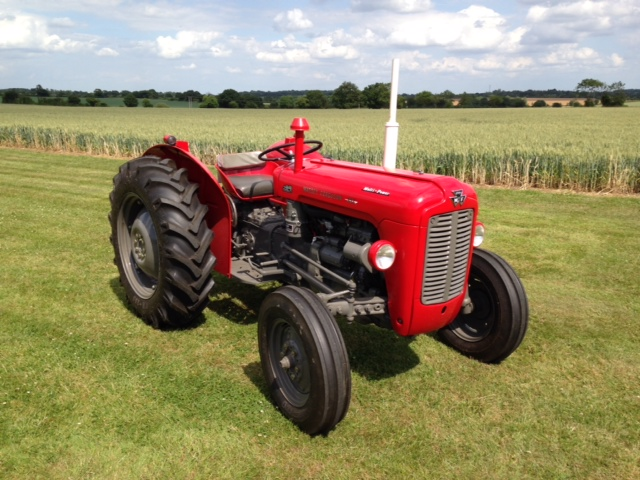 A 1964 multi-power British Massey Ferguson MF35X - side view